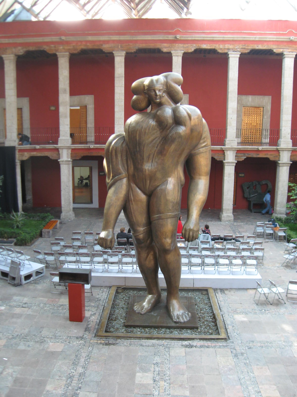 Courtyard of the Jose Luis Cuevas Museum in Mexico City with statue of "La Gigantesca" (The Giant Woman)